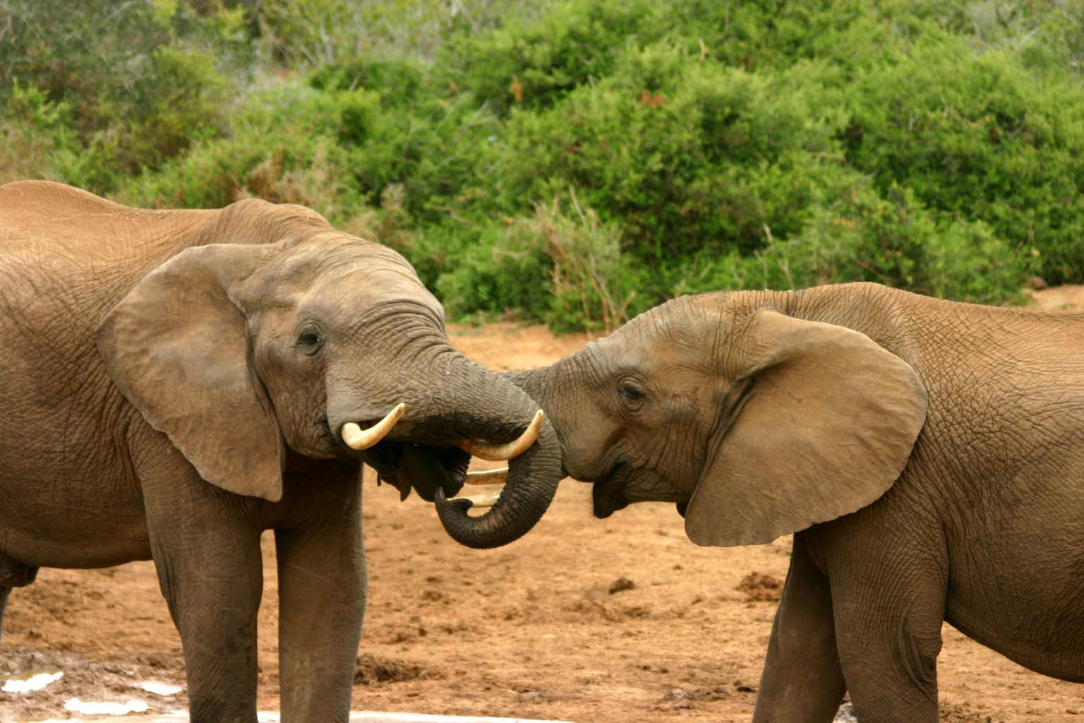 a young male and a young female elephant start an extended mating ritual in the Addo Elephant Park, South Africa. (No.1 in a series of 5 photos)